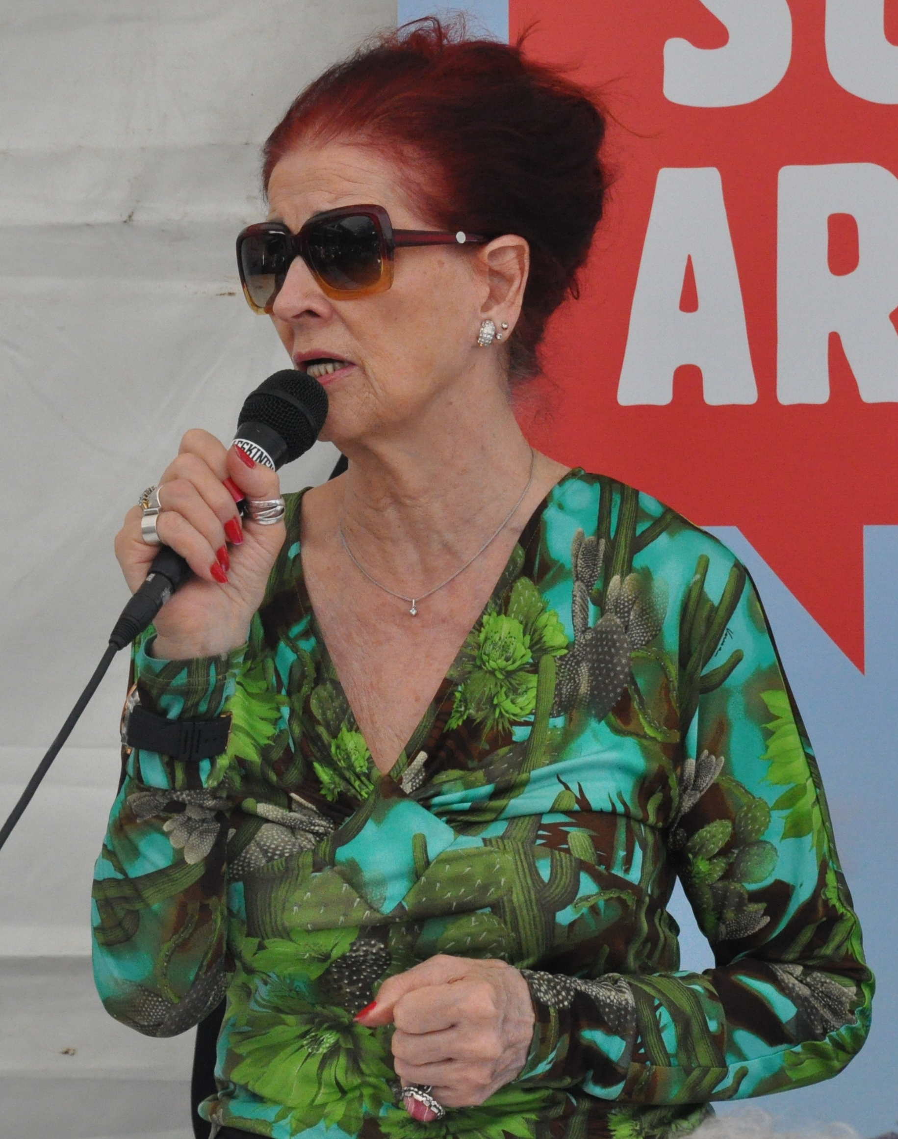 Finnish dance instructor Aira Samulin at the SuomiAreena 2009 event in Pori, Finland.